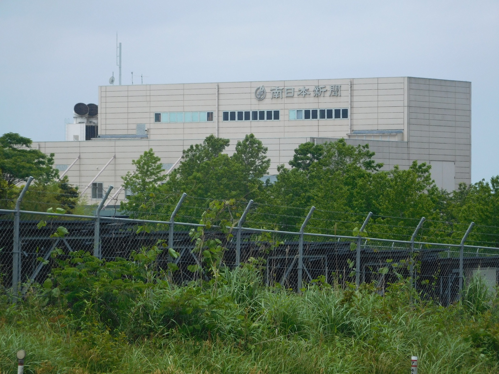 Minami-Nippon Shimbun Kokubu Printing Factory Center (a Japanese Newspaper in Kagoshima Prefecture, Japan)